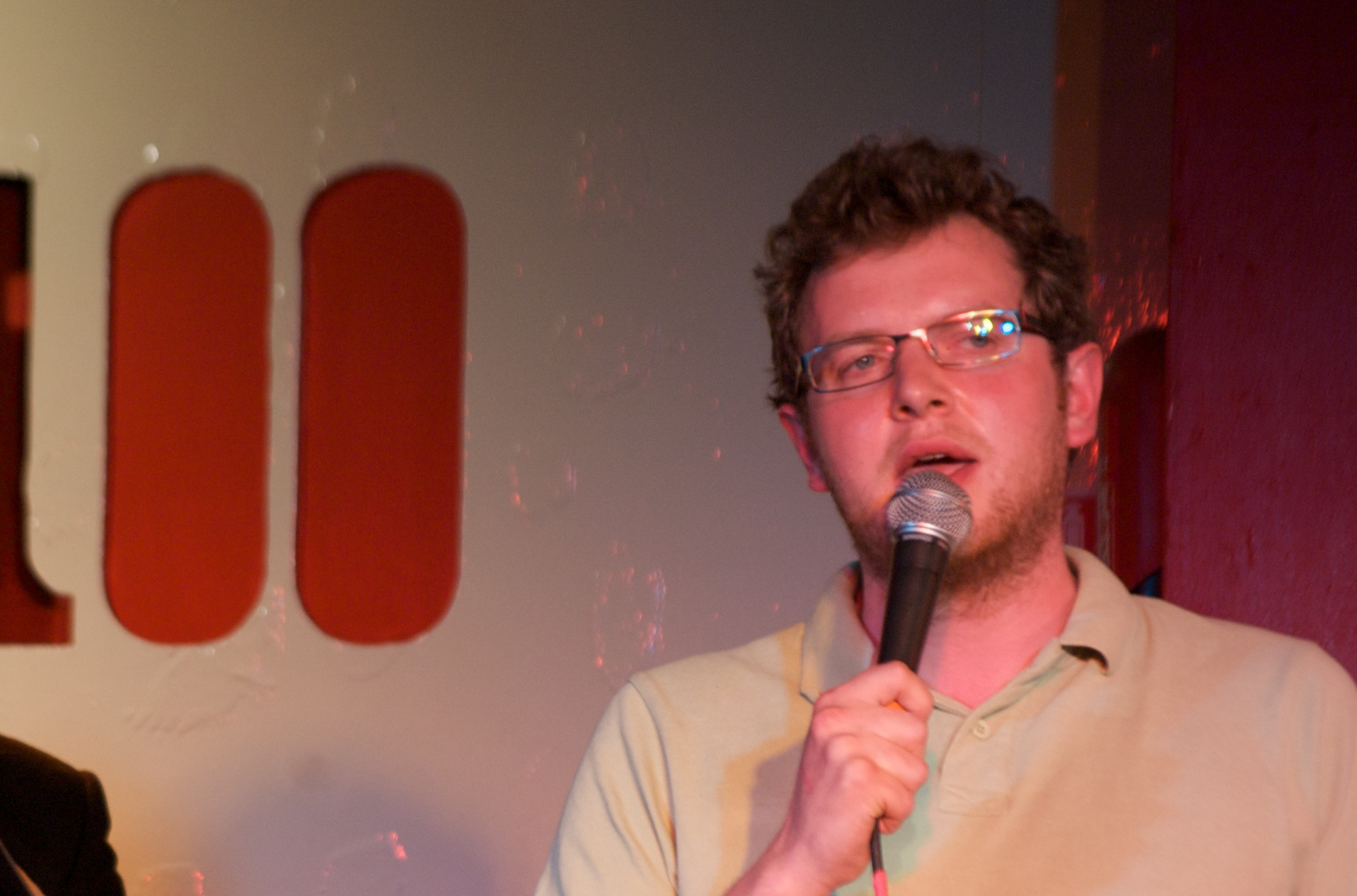 Miles Jupp (born 8 September 1979) is a British actor and comedian. Here he is at The 100 Club.